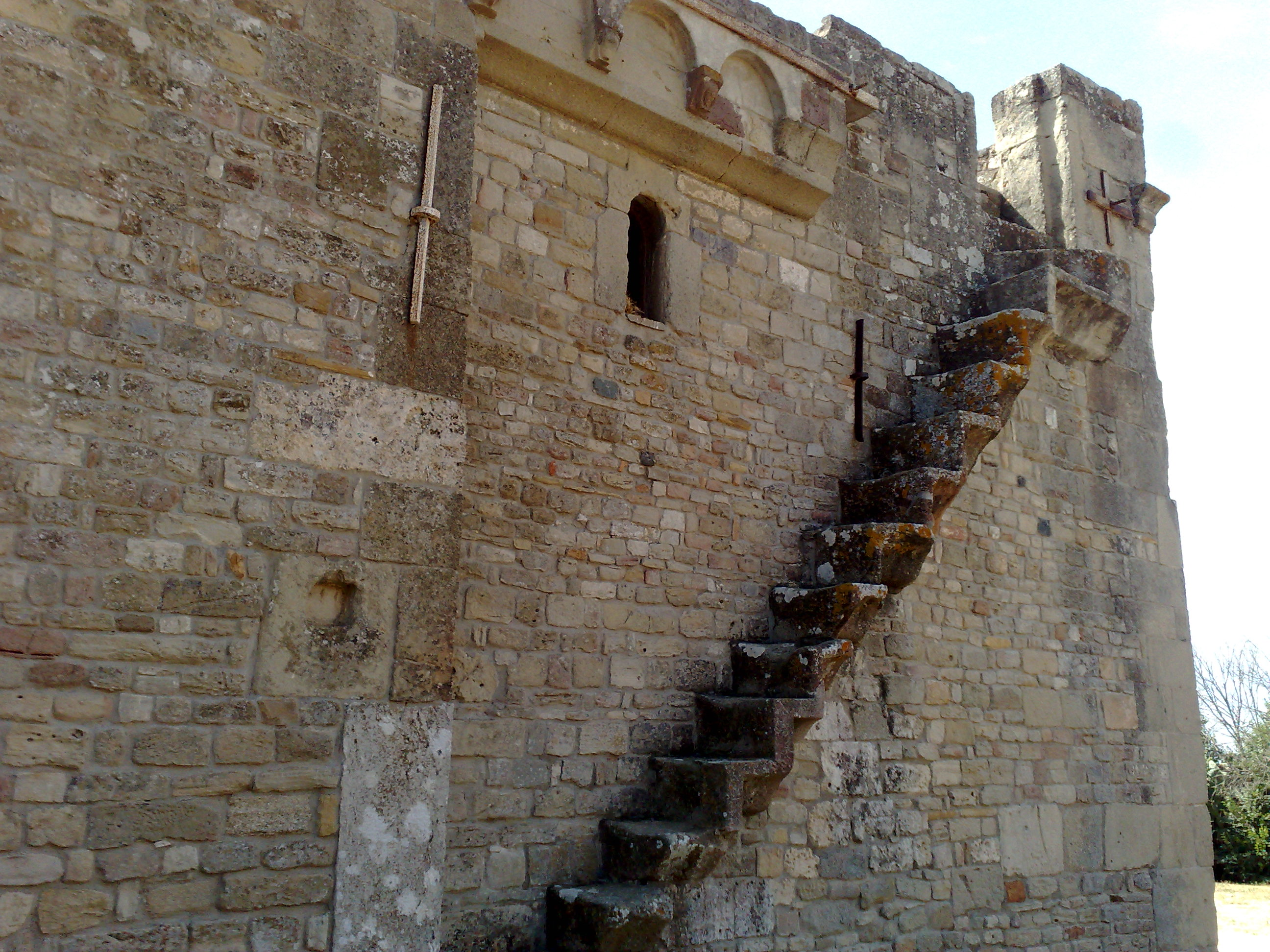 Santa Maria Sibiola